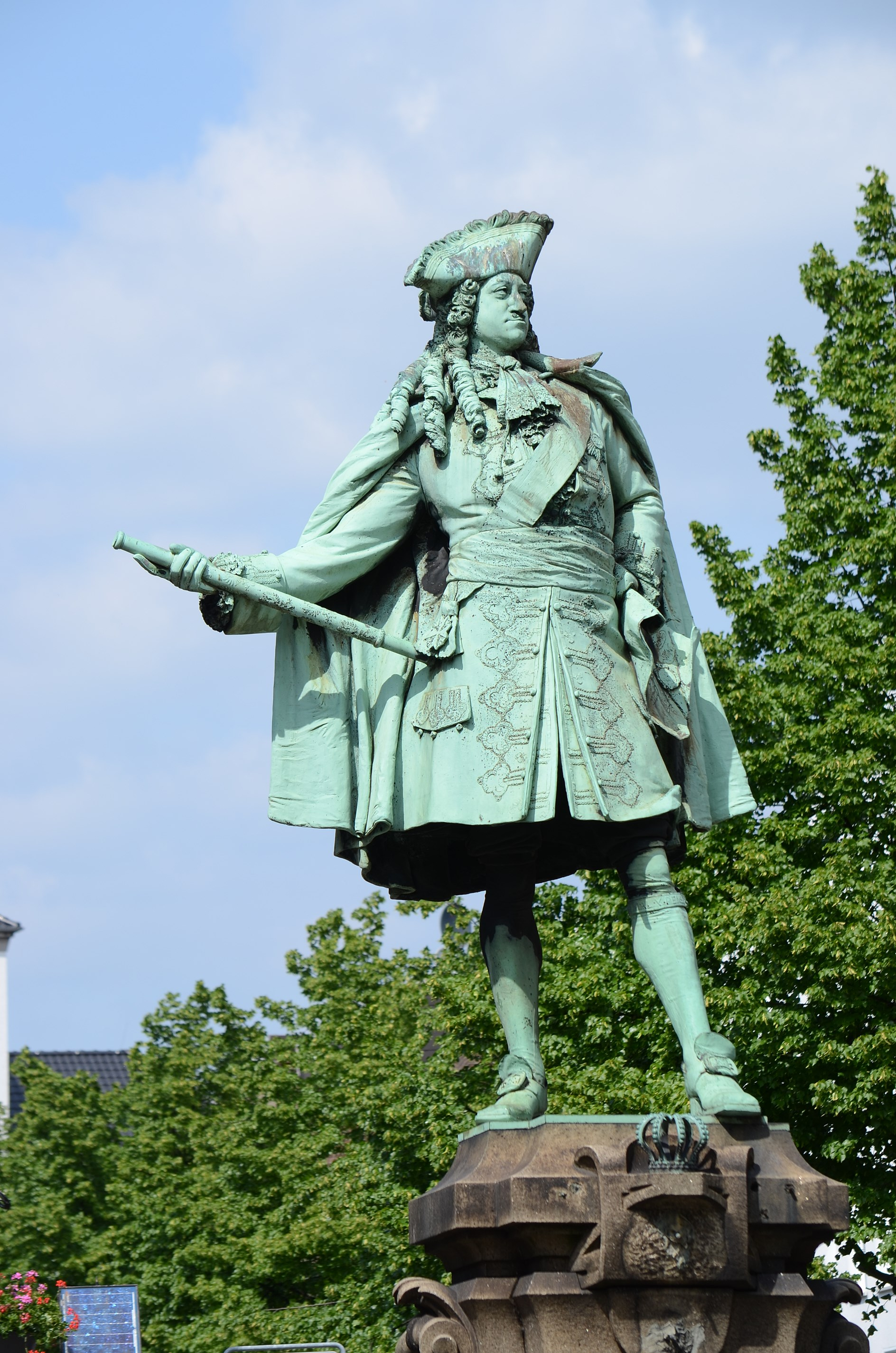 Moers (North Rhine-Westphalia, Germany) – square Neumarkt – statue of Frederick I of Prussia This image shows a heritage building in Germany, located in the North Rhine-Westphalian city Moers (no. 93). This photograph was taken with a Nikon D7000